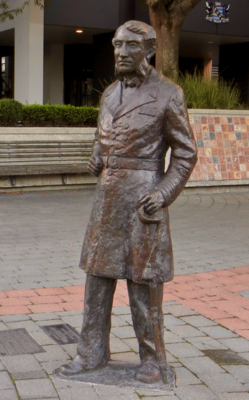 Statue of Captain John Fane Charles Hamilton (1822-1864). Hamilton, New Zealand. 8 April 2017.